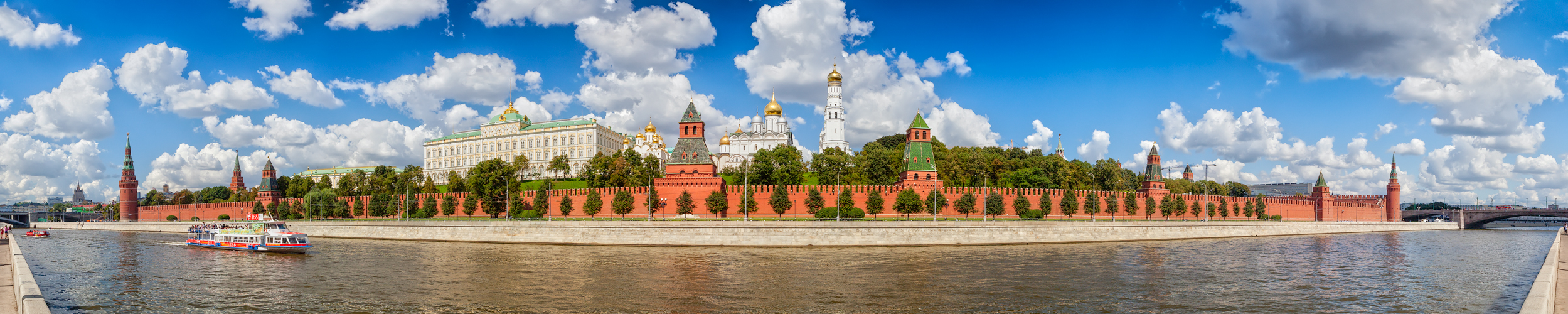 View to the Moscow Kremlin from Sofiyskaya embankment